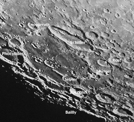 Schiller-Zucchius Basin.